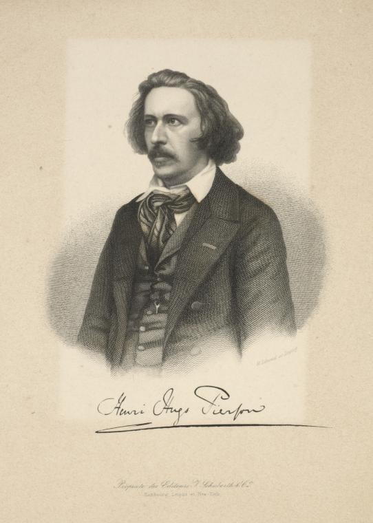 Portrait of Henry Hugo Pierson (1815-1873), English composer; from Muller Collection; Location: The New York Public Library for the Performing Arts / Music Division; Digital ID: 1555983; Record ID: 1019748